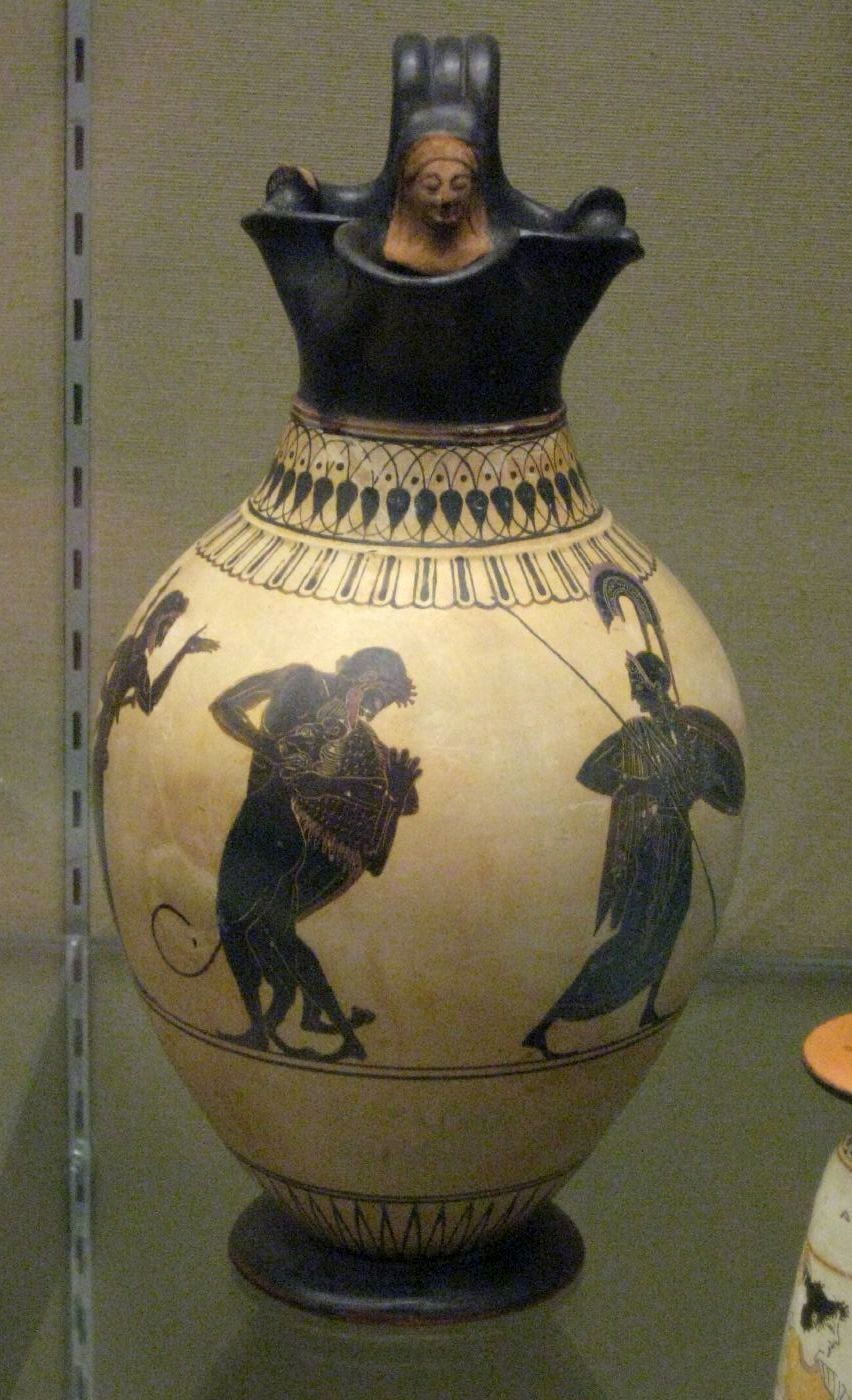 Made in Athens about 520 - 500 BC, attributed to the Painter of London B 620, potted by Andokides [1].